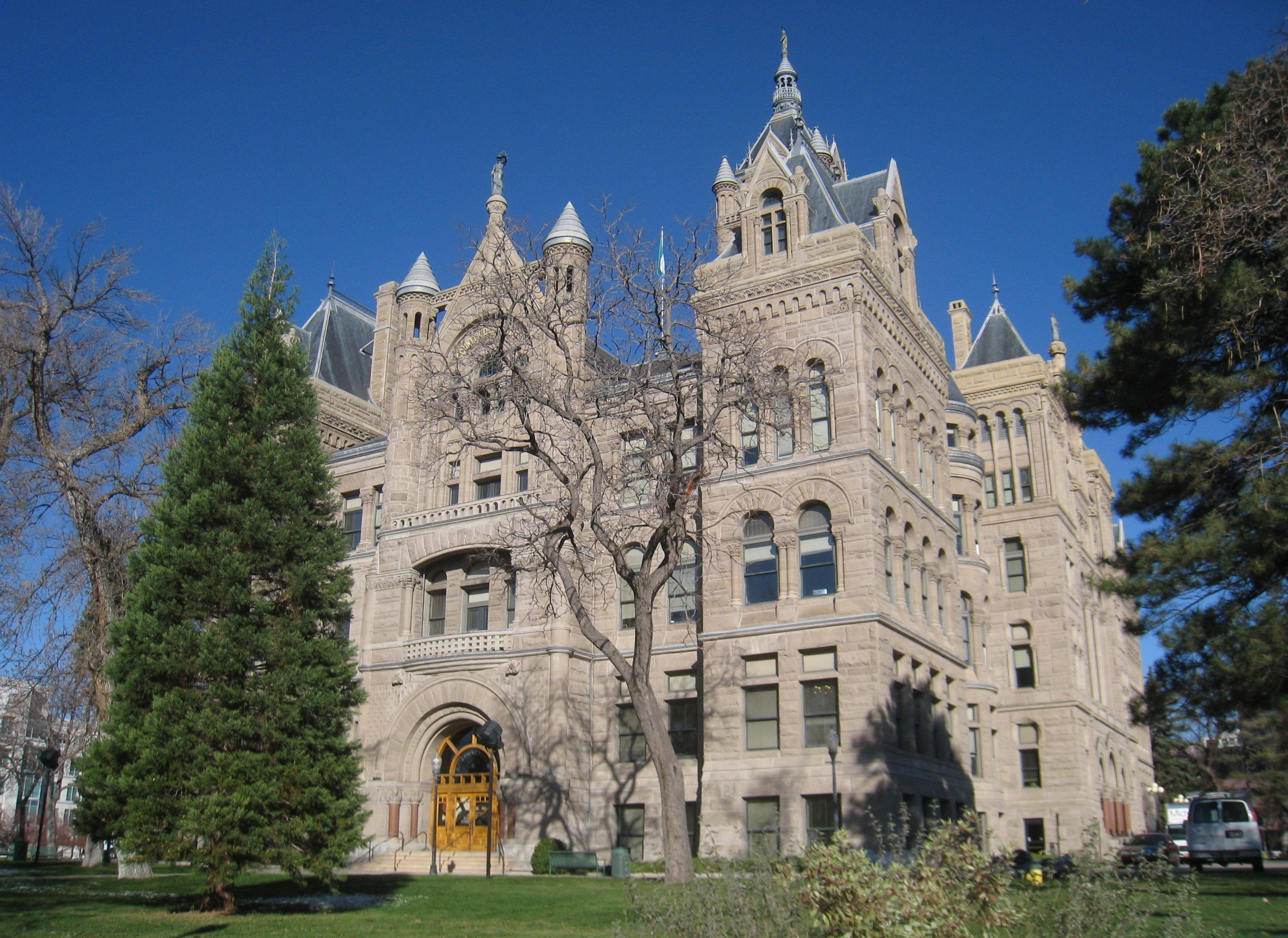 Salt Lake City and County Building, Salt Lake City, Utah, USA.